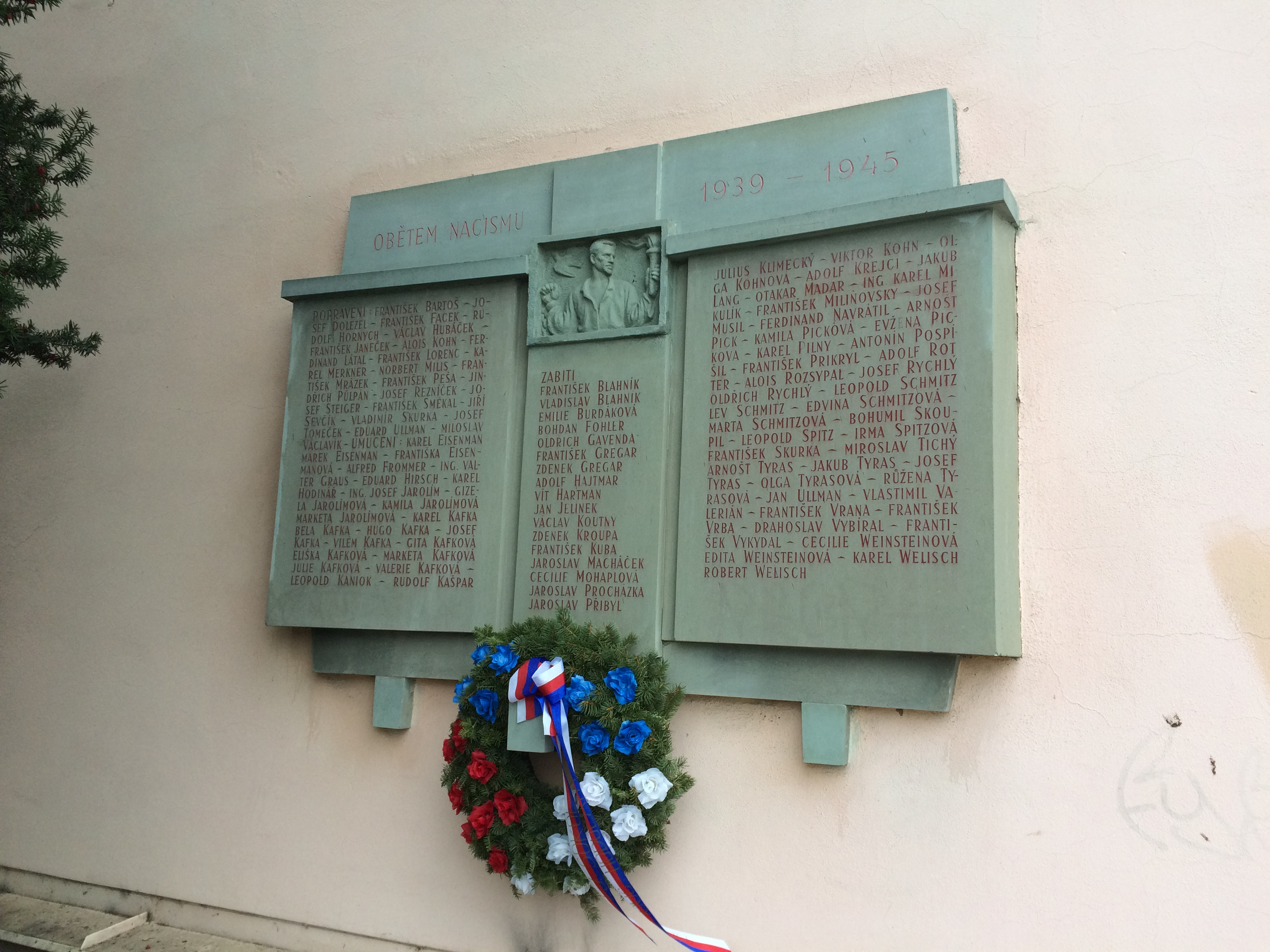 Plaque to the victims of Nazism placed on the wall of an elementary school in the Hodolanská street in Olomouc.